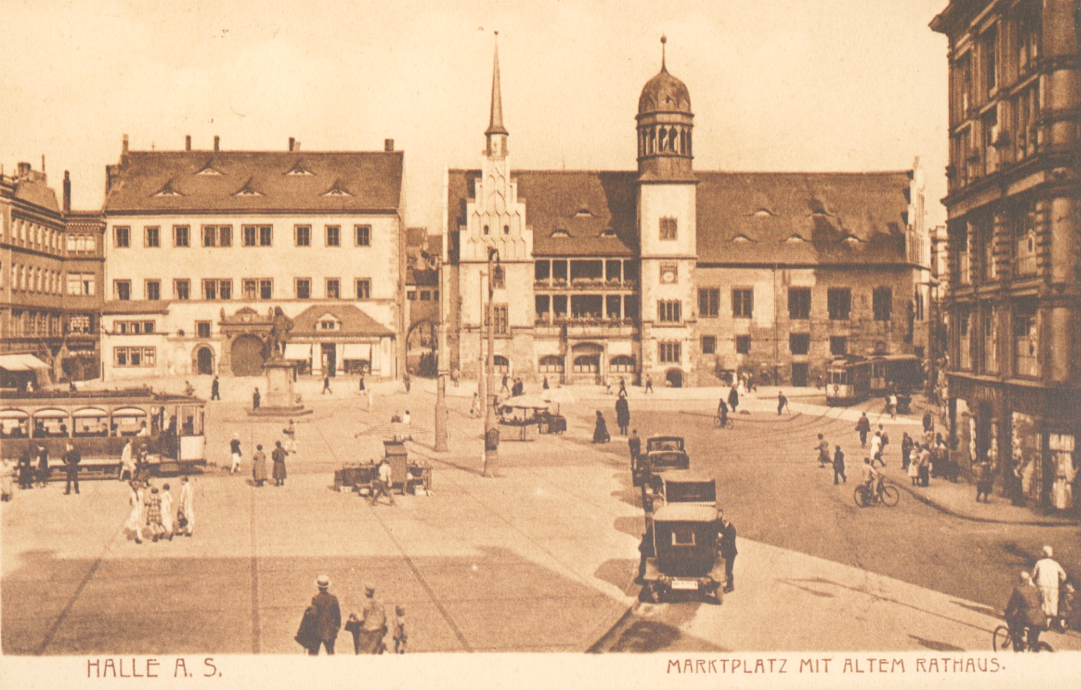 Ratswaage and Old Townhall in Halle (Saale) in Sachsen-Anhalt